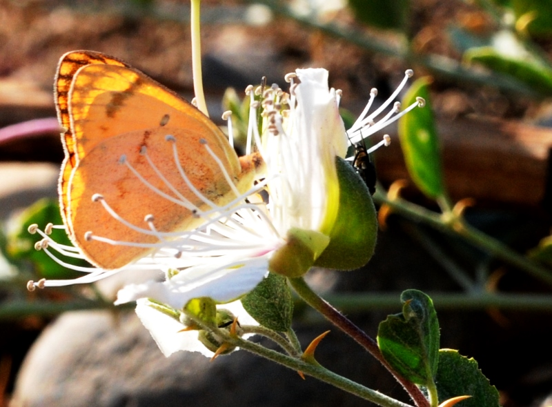 Wing underside view of a Large Salmon Arab (Colotis fausta) butterfly, feeding nectar from its larval host and nectar plant Palestine cappar (Capparis ovata var.palestini). Birecik - Sanliurfa, Turkey. 330 m.